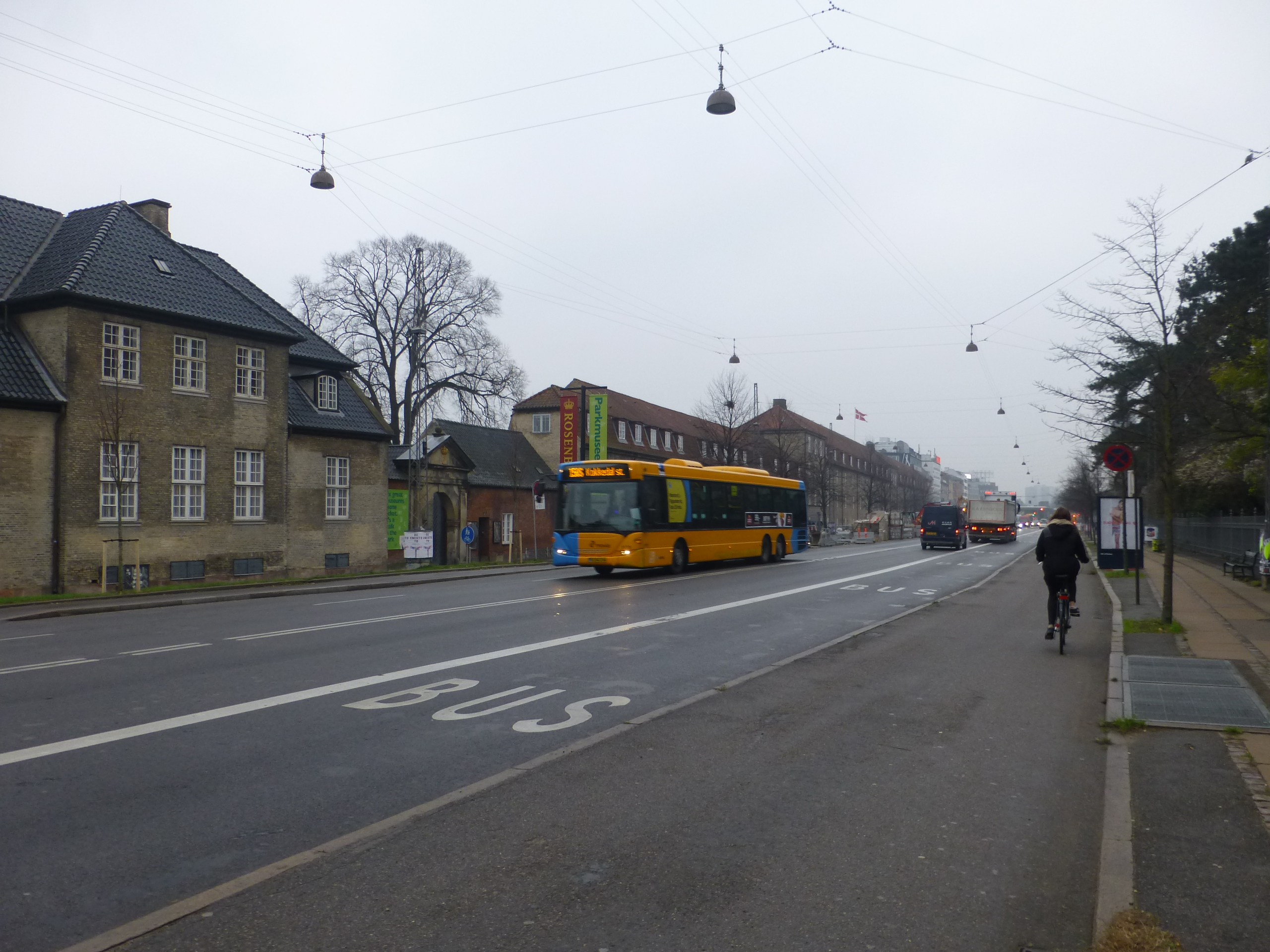 A part of the bus rapid transit (BRT) Den kvikke vej between Nørreport Station and Ryparken station without BRT standard. Movia bus line 150S on Øster Voldgade.